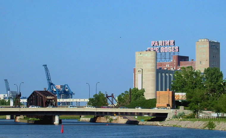 the Farine Five Roses elevators and a decrepit old center-pivot bridge share space with modern port cranes.